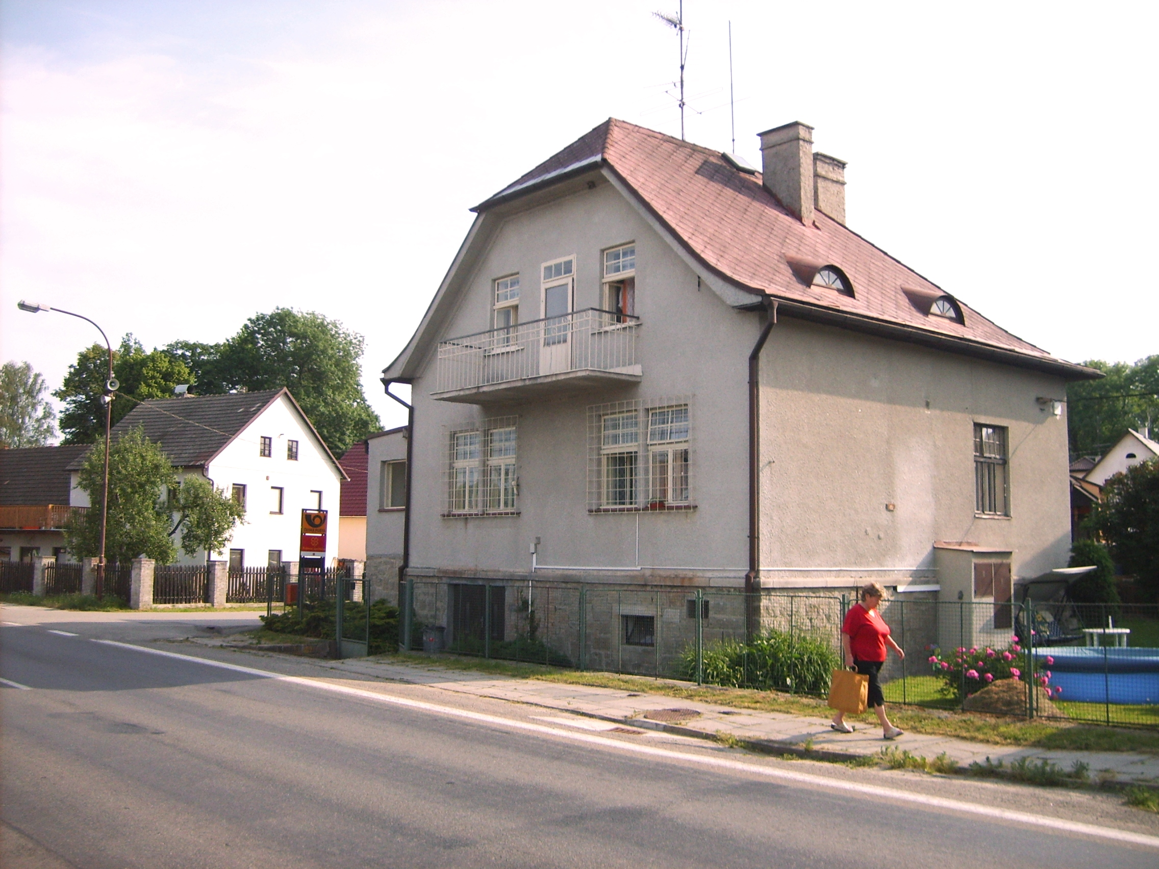 Post office in Horní Pěna.